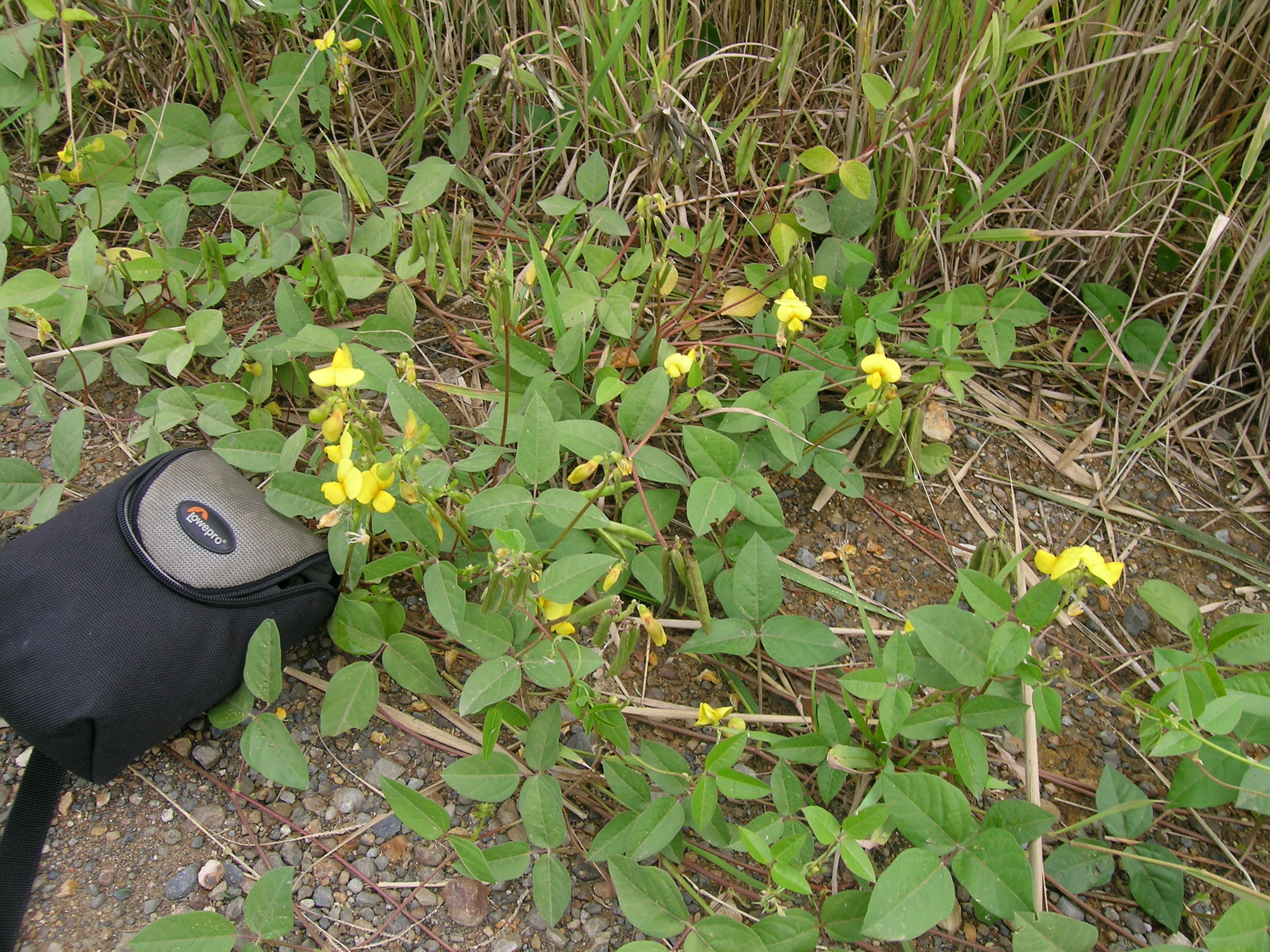 Native, yearlong-green, perennial, scrambling-climbing legume, with stolons. Leaves have 3 leaflets, each 3-10 cm long, sparsely hairy and ovate. The central leaflet has a longer stalk than the lateral leaflets. Flowerheads are racemes of 2-12 yellow to greenish-yellow, 12-25 mm long, pea-like flowers in the leaf axils. Pods are drooping, cylindrical, hairy and 4-8 cm long. Flowering is over most of the year. Found north from the Macleay Valley in damp-wet areas where the annual rainfall exceeds 1200 mm. Tolerant of acidity, waterlogging, short-term flooding and shade, but not drought or frost. Native biodiversity. Not commonly sown as no commercial seed, even though it is one of the best legumes for wet conditions and a useful pioneer species. Easily established, very palatable, non-bloating and relatively high yielding (especially compared to other legumes in moderate to dense shade). It is preferentially grazed and can only withstand short periods of heavy grazing (appropriate rest periods are essential). Stands will persist for 3 or more years and production is maximised if soil phosphorus is maintained at moderate (or better) levels and lenient grazing is used. Remove stock when there is still plenty of vine and some leaf to maximise persistence and production. The more leaf left on the plant, the faster the regrowth.